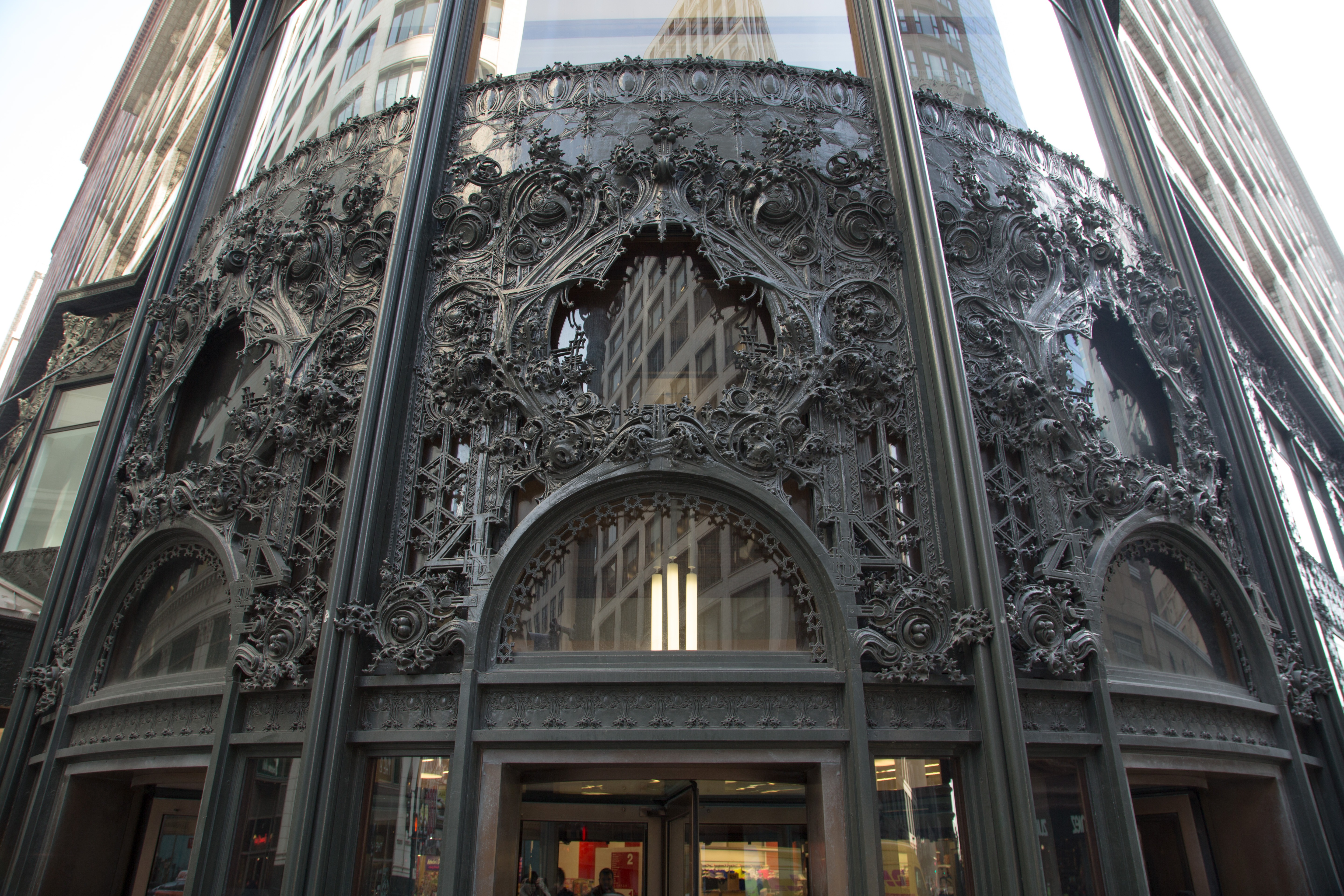 Carson Pierie scott building